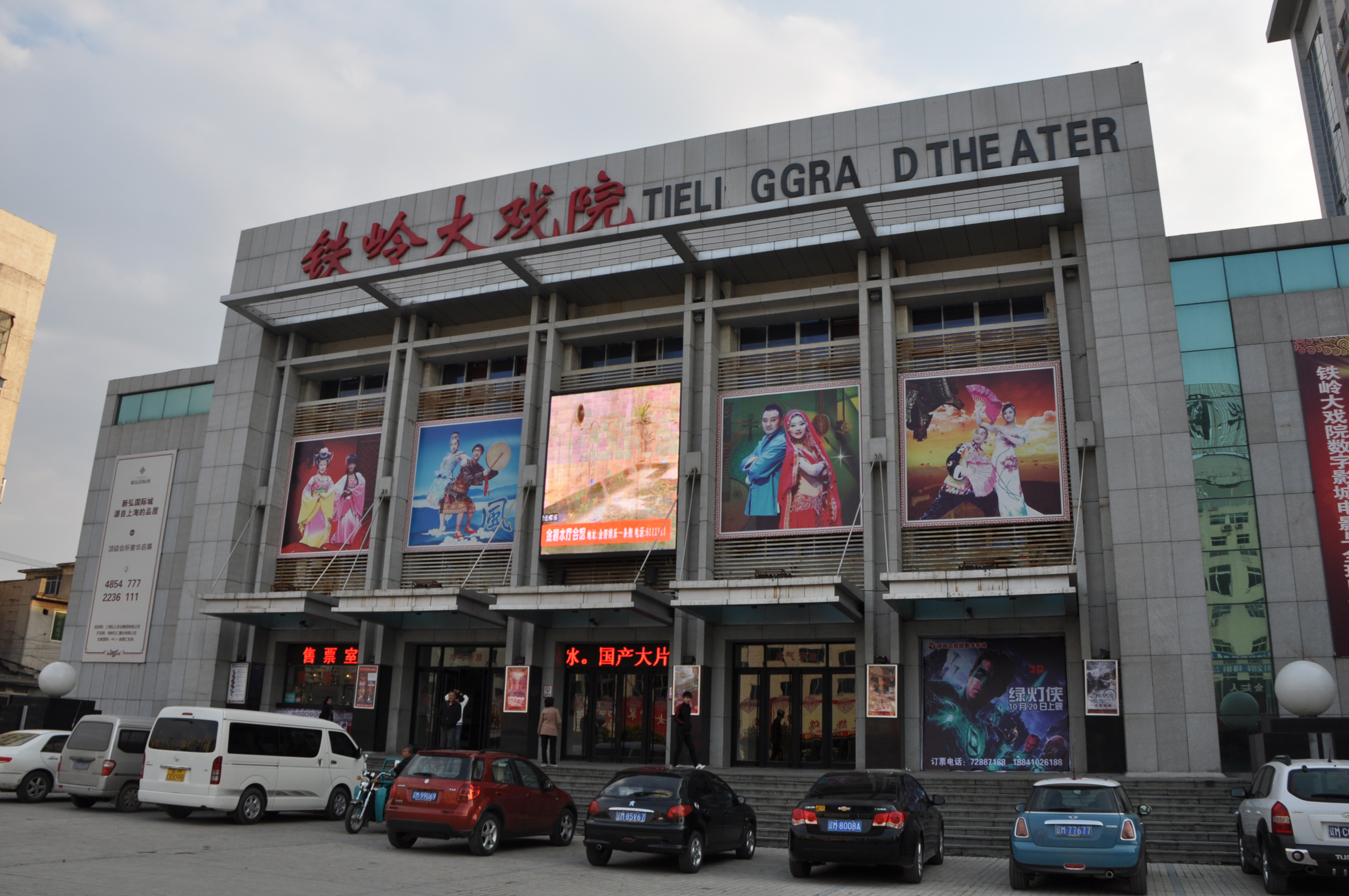 Tieling - Tieling Dajuyuan